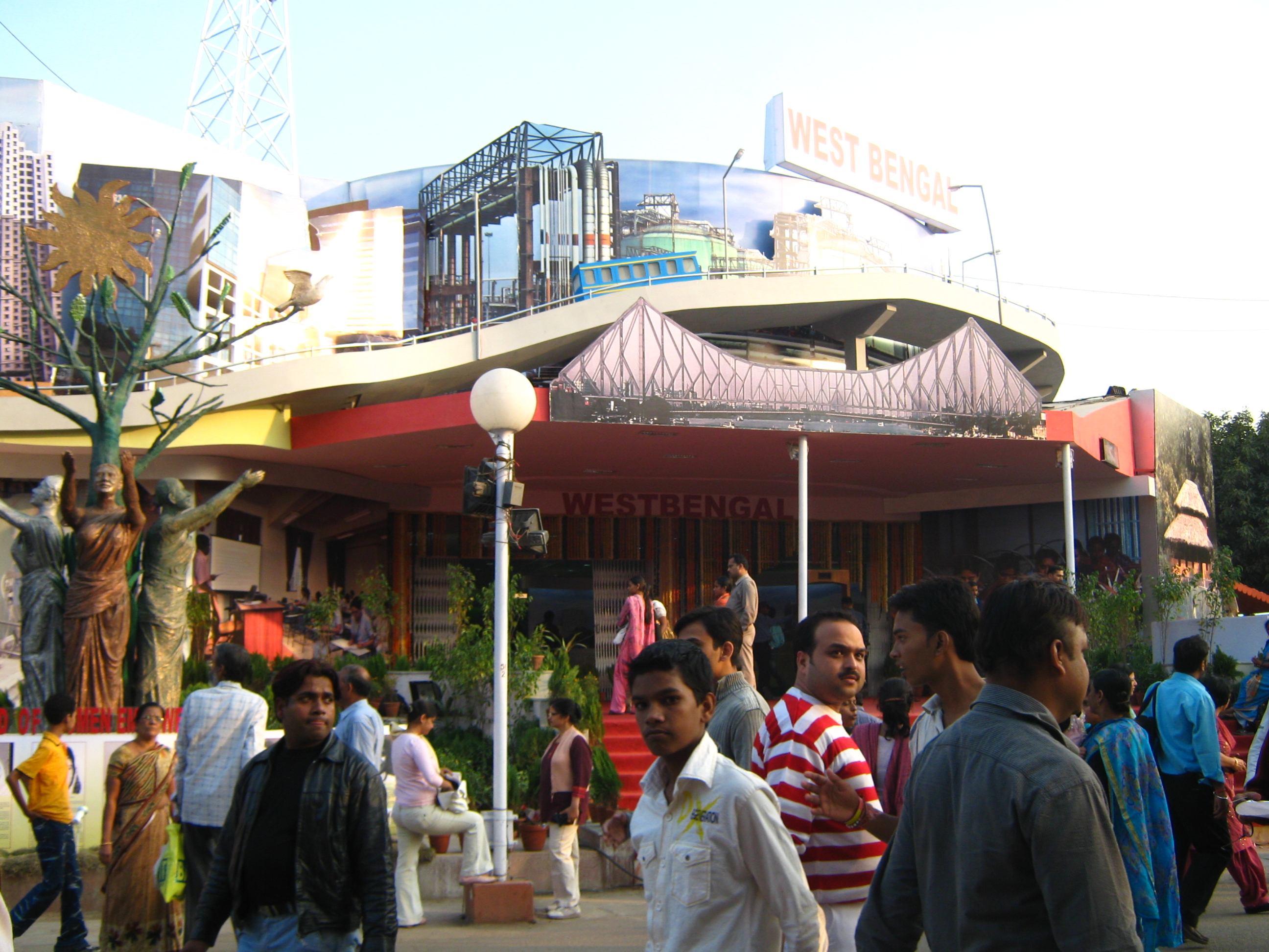 Indian International Trade Fair 2008